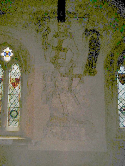 Medieval wallpainting inside All Saints church in Great and Little Kimble, Wycombe district, Buckinghamshire